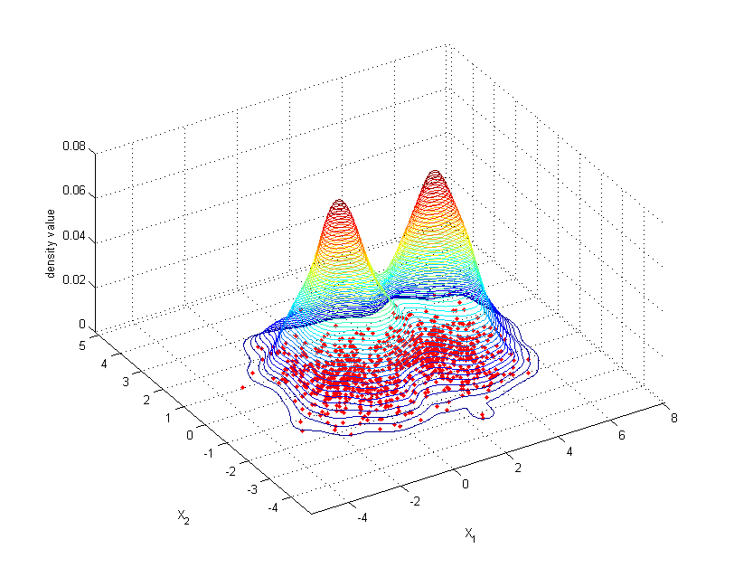 Diagram explaining mathematics of density estimation. Used for educational purposes and created by holder of account.